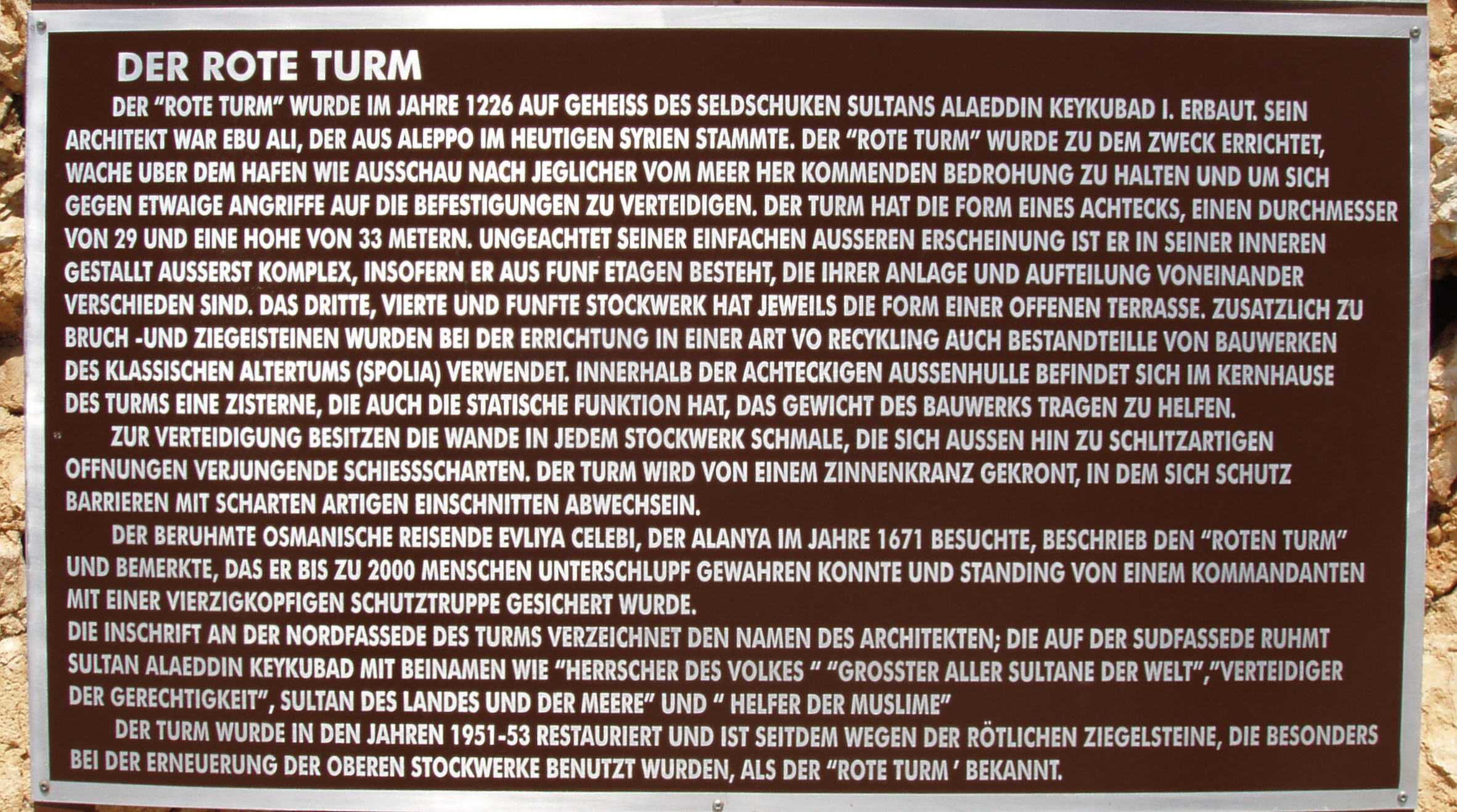 Information about the Red Tower of Alanya, Turkey